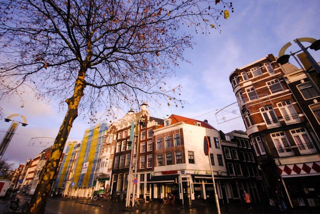 This is an image at a square in Amsterdam